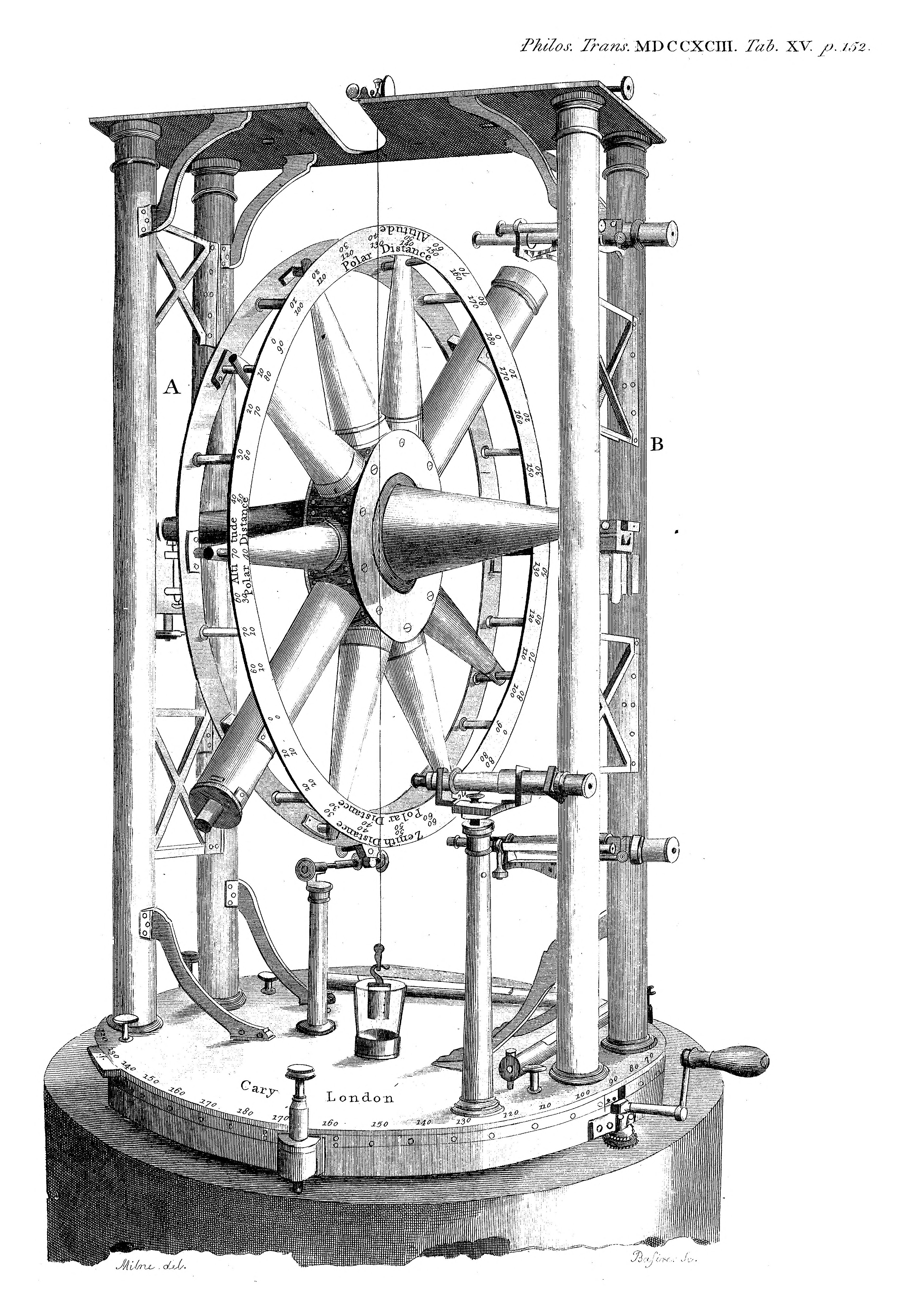 View of a transit circle (transit instrument) from: Wollaston, Francis (1793). "A description of a transit circle, for determining the place of celestial objects as they pass the meridian". Philosophical Transactions 83: 133-153.